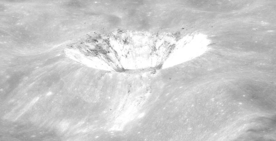 Oblique view facing south of Petit crater, on the moon.